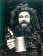 Family photo of Evgeny Rukhin